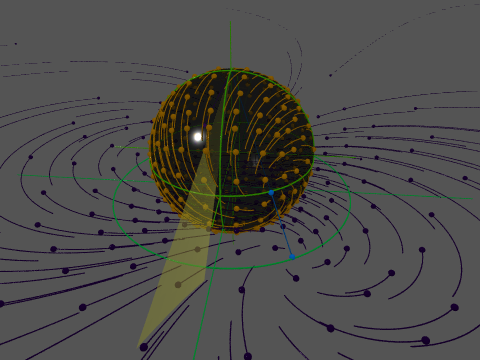 Mobius transformation, showing stereographic projection between plane and sphere. Generated with POVRAY. Povray file created with a java program.